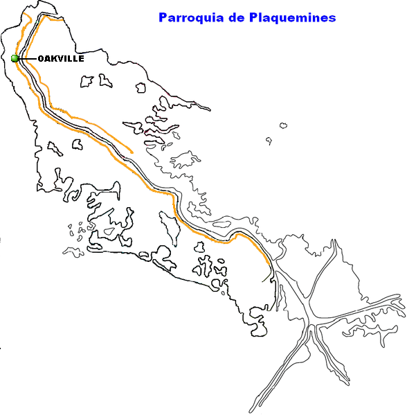 Oakville map locator